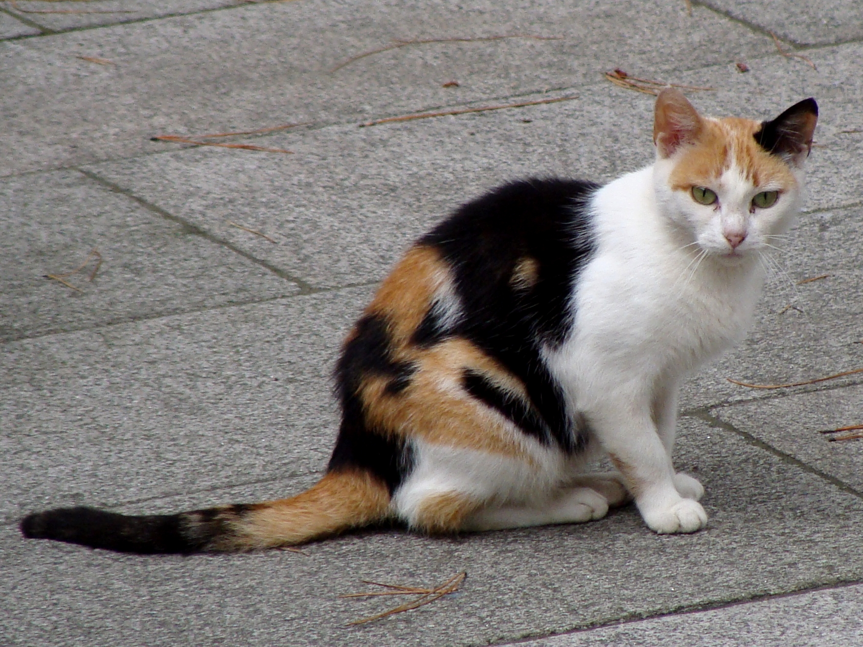 Felis silvestris catus (cat) in Corunna, Galicia, Spain.